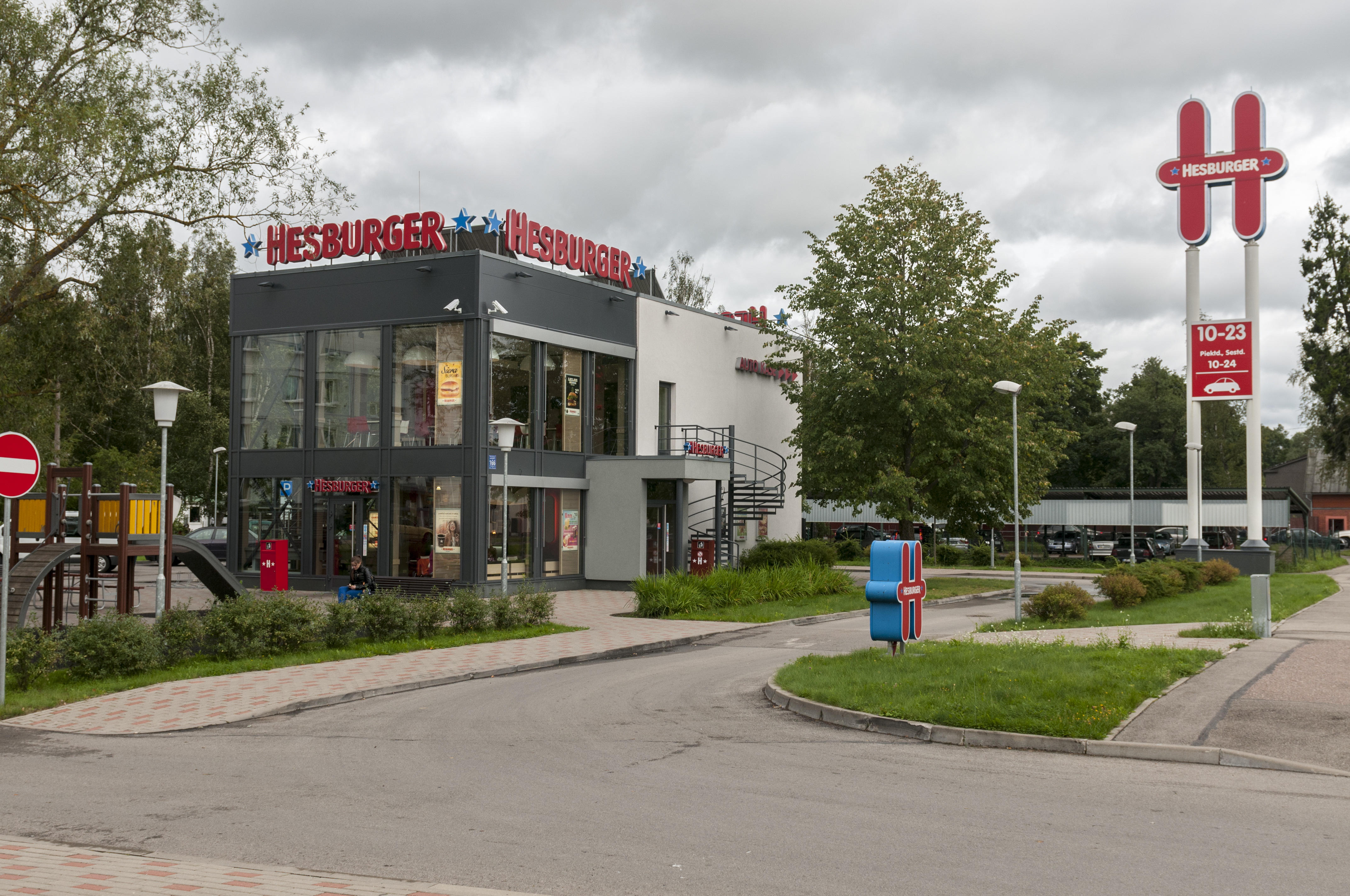 Hesburger in Riga, Latvia